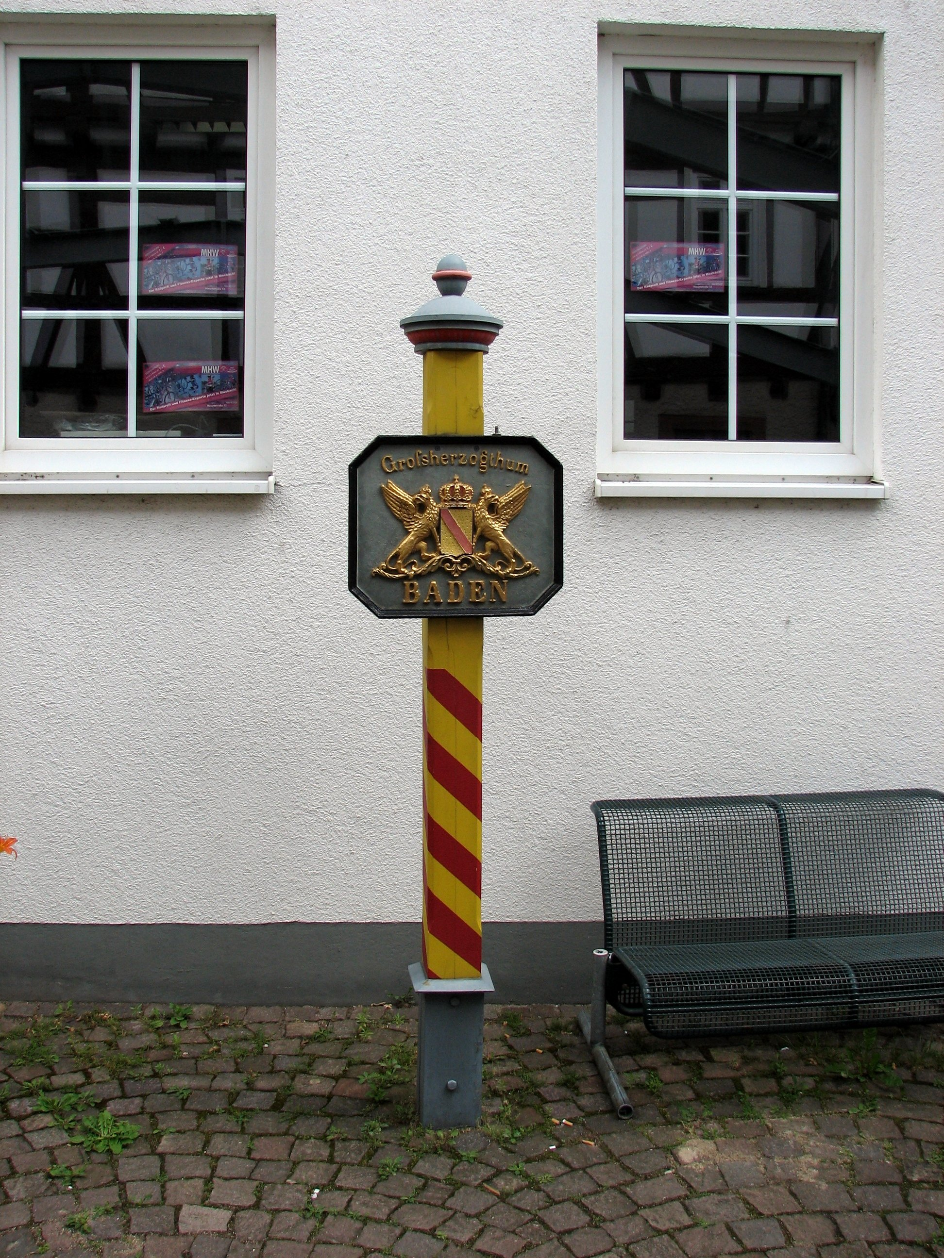 Badenian border stone at old hospital of Mosbach